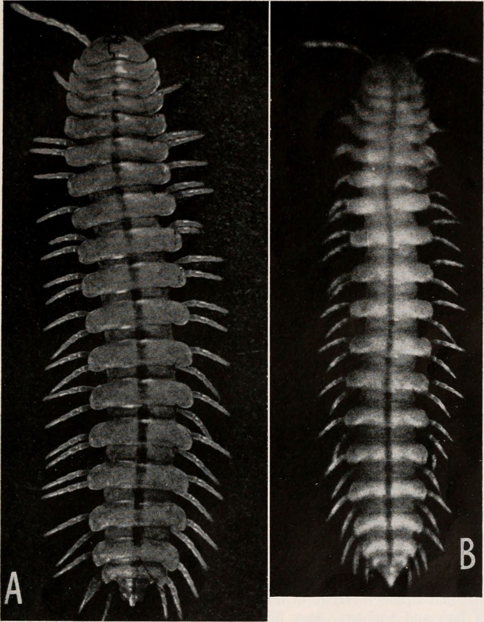 A. Adult Motyxia sequoiae. B. An adult M. sequoiae photographed in its own light. Animal curarized. Approx. X 3. Title: The Biological bulletin Identifier: biologicalbullet102mari Year: [1] (s) Authors: Marine Biological Laboratory (Woods Hole, Mass. ); Marine Biological Laboratory (Woods Hole, Mass. ). Annual report 1907/08-1952; Lillie, Frank Rattray, 1870-1947; Moore, Carl Richard, 1892-; Redfield, Alfred Clarence, 1890-1983 Subjects: Biology; Zoology; Biology; Marine Biology Publisher: Woods Hole, Mass. : Marine Biological Laboratory